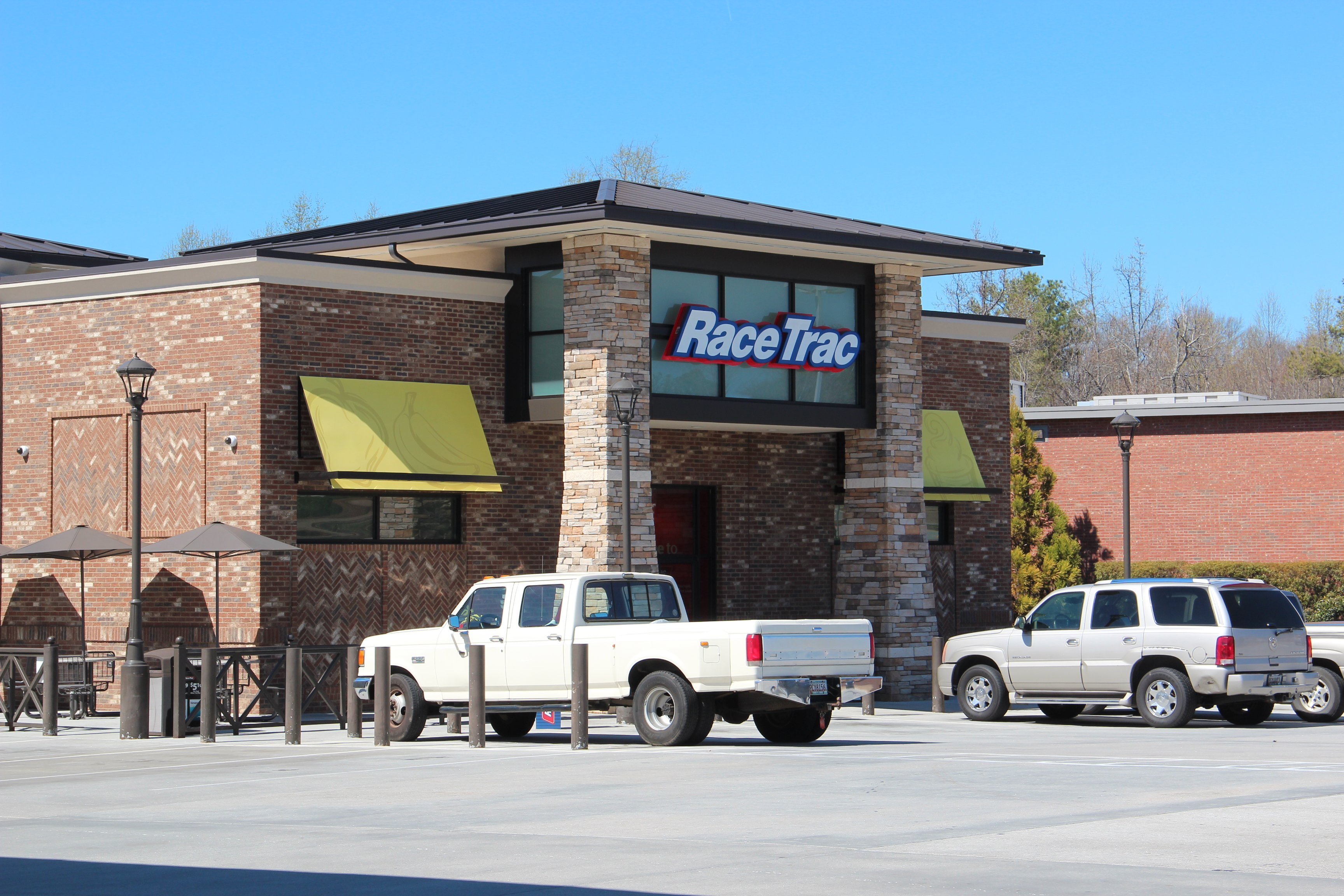 RaceTrac in Roswell, Georgia